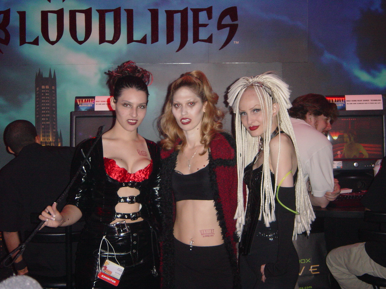 Taken on May 15, 2003 Dowtown Carrier Annex, Los Angeles, CA, US Sony Cybershot